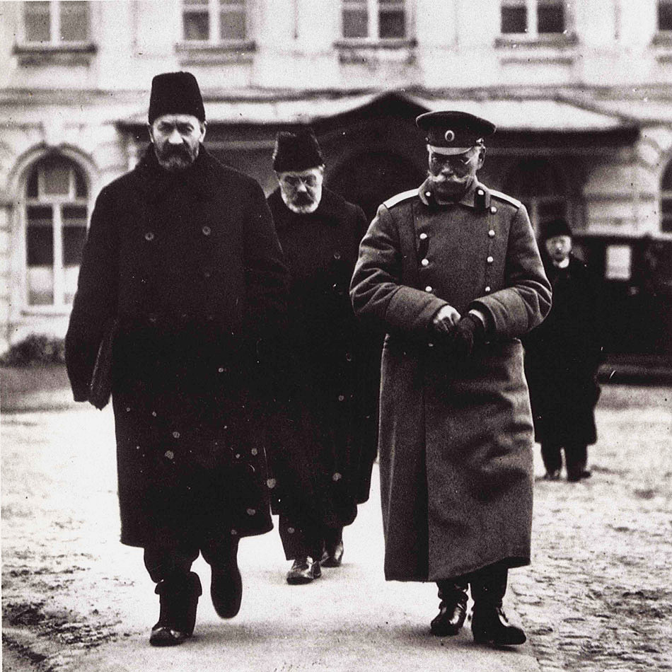 Chief of Staff of the General Headquarters (Stavka) General Alekseev, prince Lvov, President of the Councile and War Minister Guchkov at Stavka. Spring 1917.